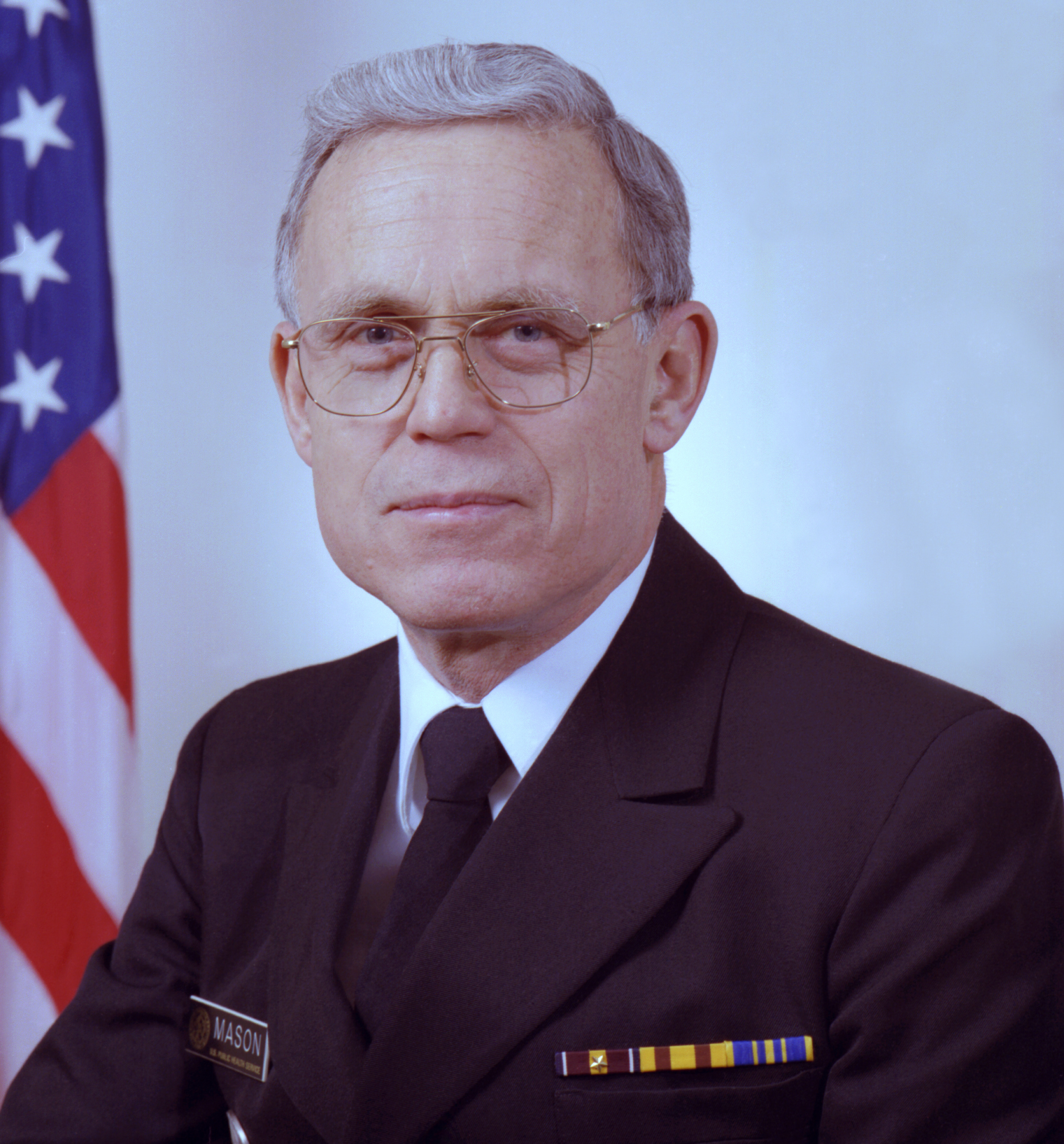 RADM James O. MasonDirector, Centers for Disease Control (CDC)